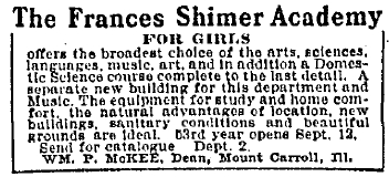 Advertisement for the Frances Shimer Academy of the University of Chicago, printed in the Chicago Daily Tribune, July 14 1906, page 16.